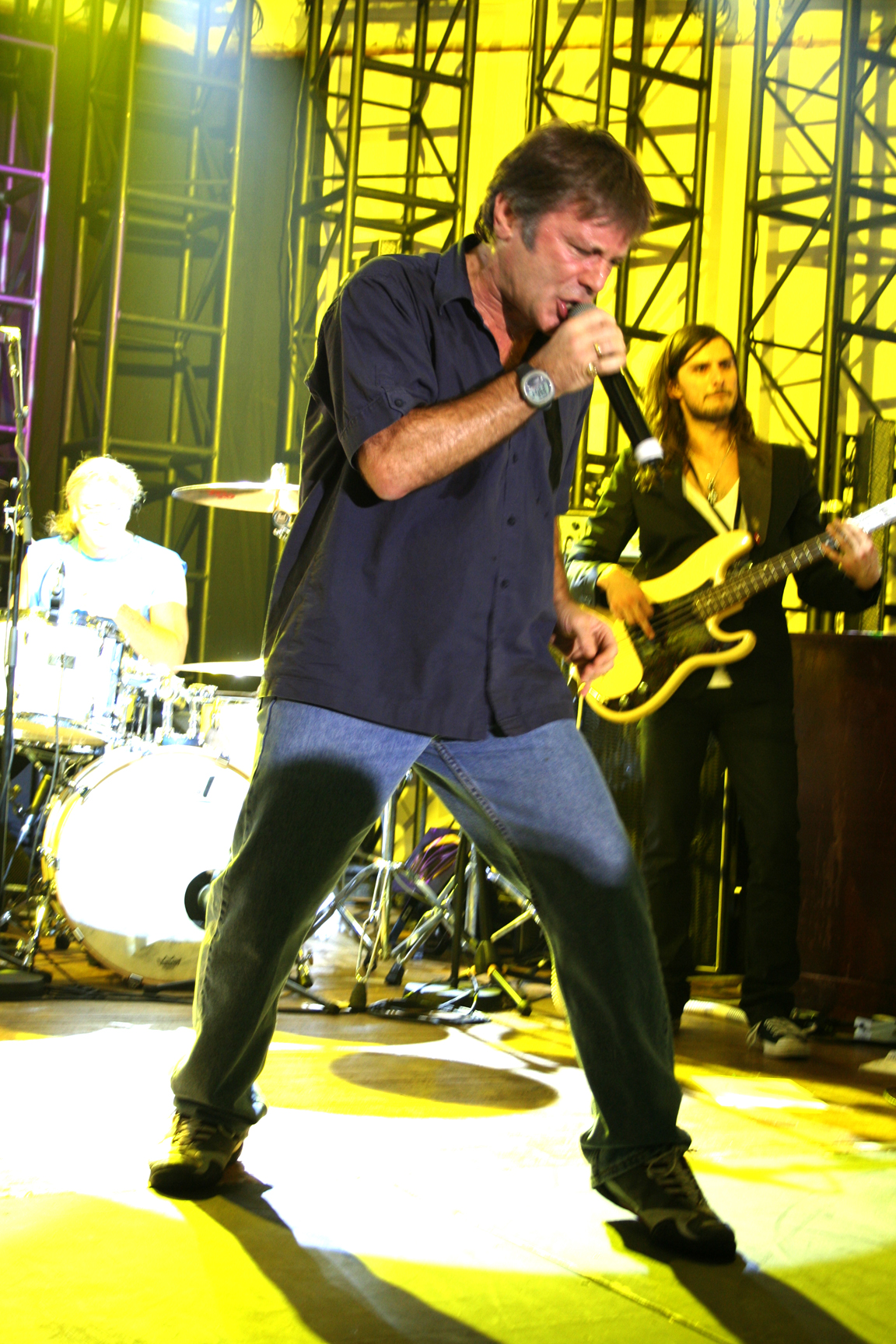 Bruce Dickinson at Sunflower Jam 2009